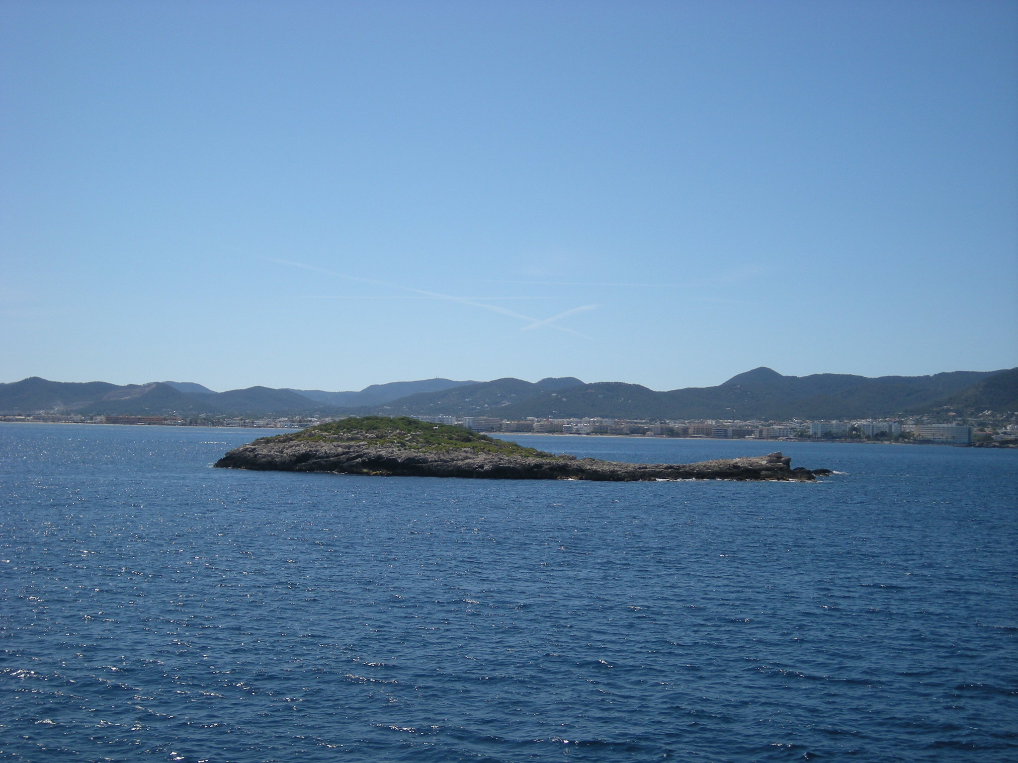 Illot proper a Figueretes. Eivissa.